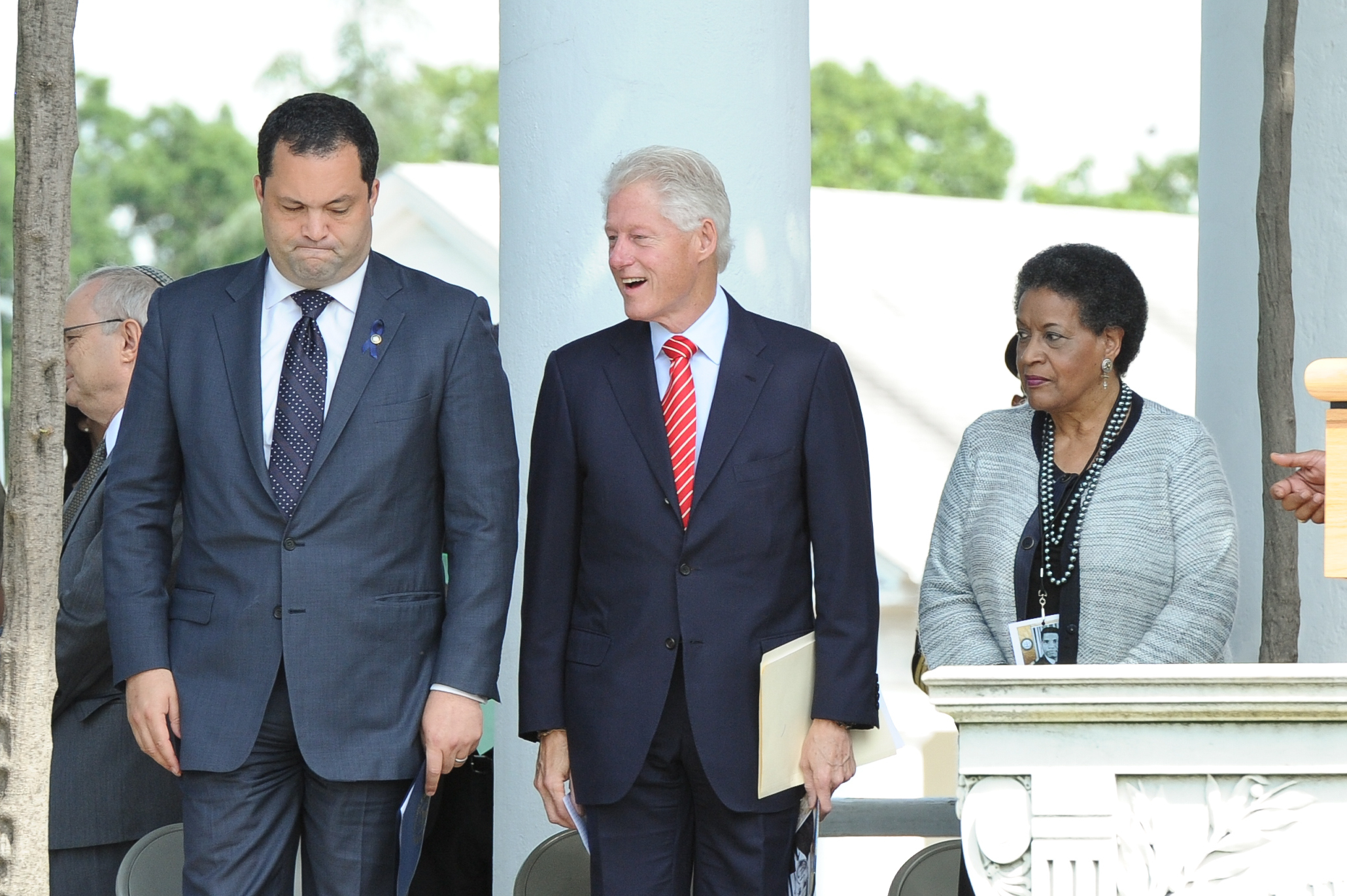 From left to right, Benjamin T. Jealous, president and CEO of the National Association for the Advancement of Colored People (NAACP), former president William "Bill" Clinton and Myrlie Evers-Williams, chairman Emeritus National Board of Directors, NAACP stand on the stage at Arlington National Cemetery's Old Memorial Amphitheater during the Medgar Evers wreath-laying ceremony in Arlington, Va., June 5, 2013.